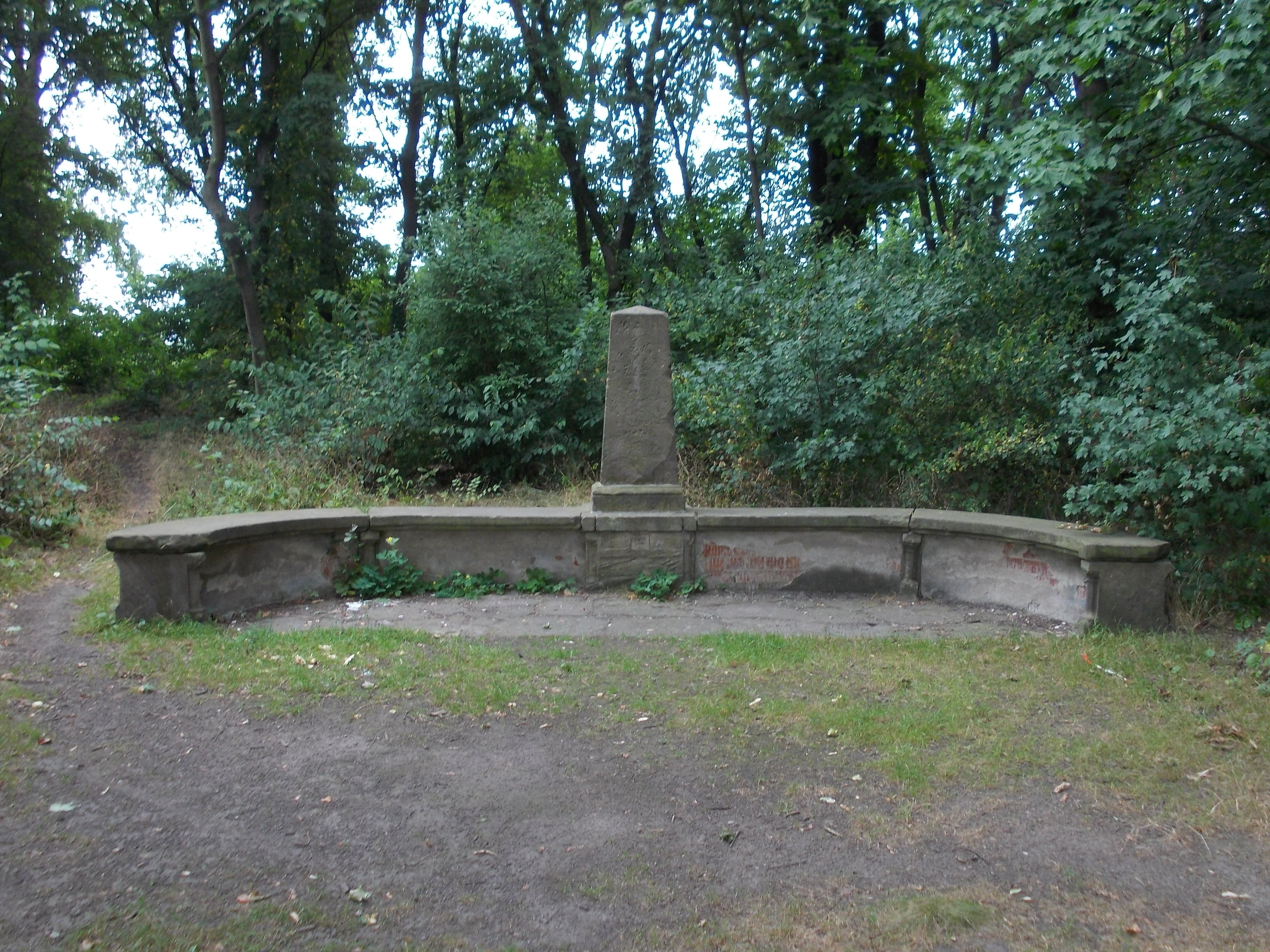 Eichendorff bench, a memorial to the poet Joseph von Eichendorff at his favorite place in the Klausberg hills in Halle (Saale)